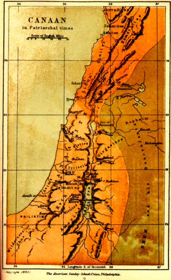 Map of Canaan in Patriarchal times